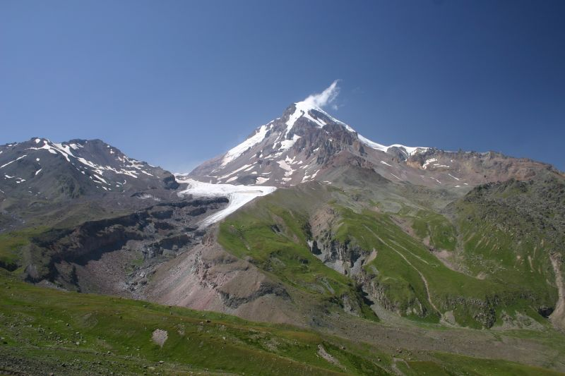 Mt. Kazbegi in The Greater Caucasus mountain range on the Georgian/Russian border